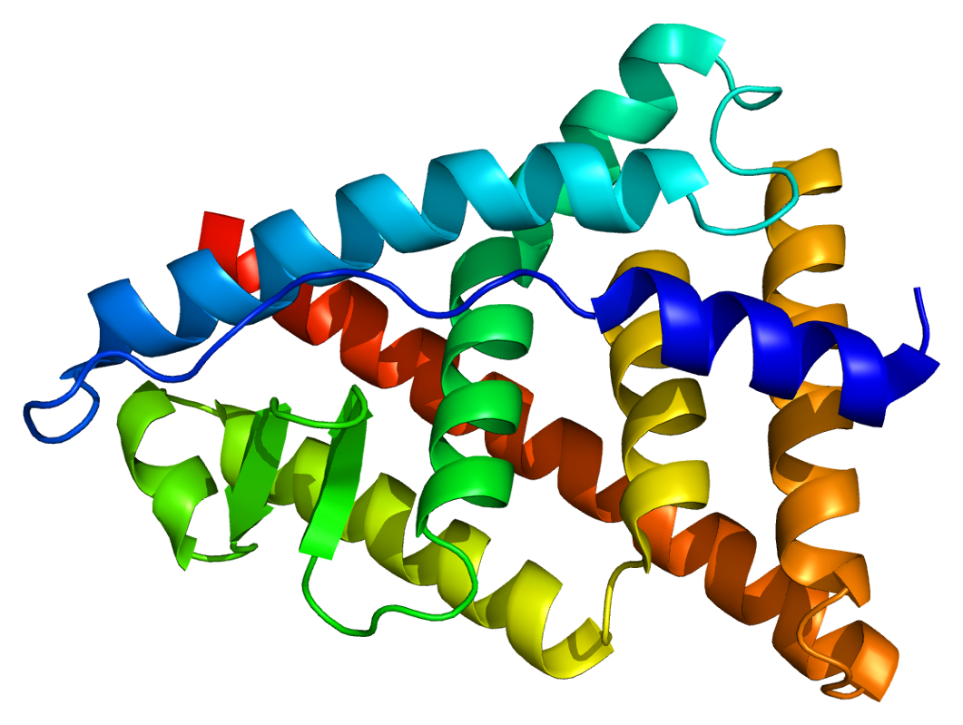 Structure of the ESR2 protein. Based on PyMOL rendering of PDB 1hj1.